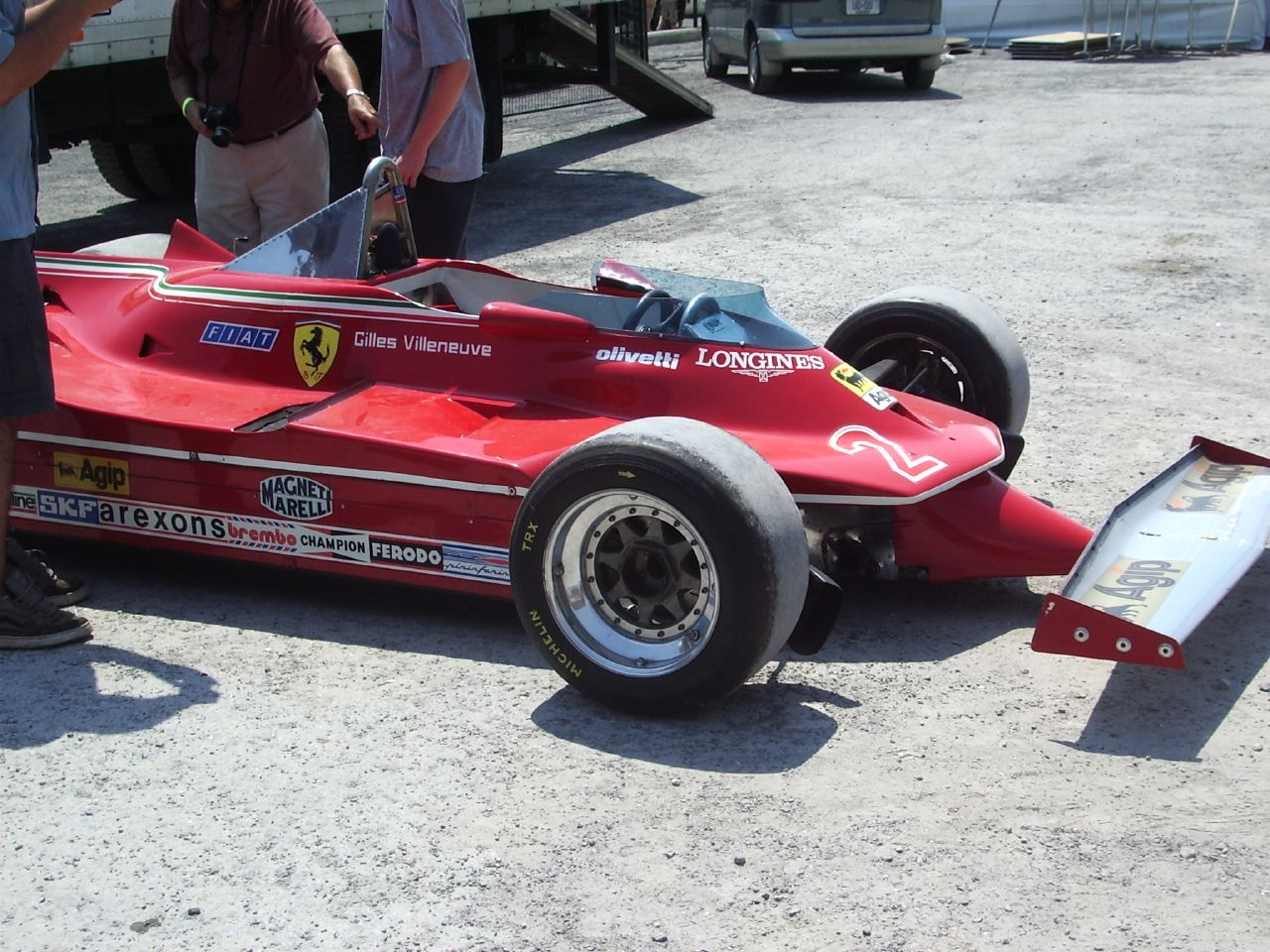 Ok, so its a T5 not a T4.